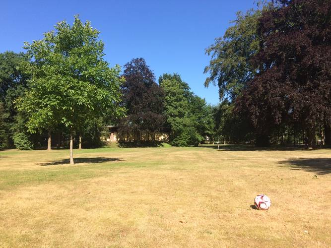 Yellowish grass after a long time of drought.